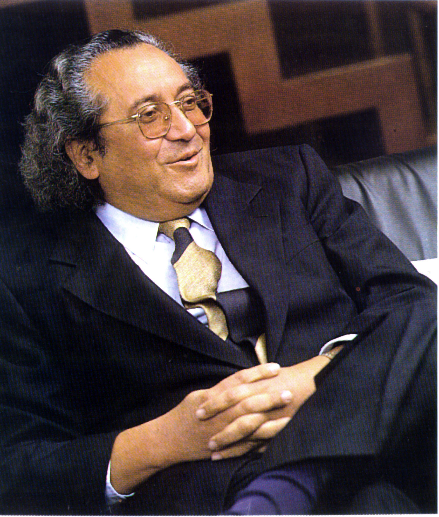 science